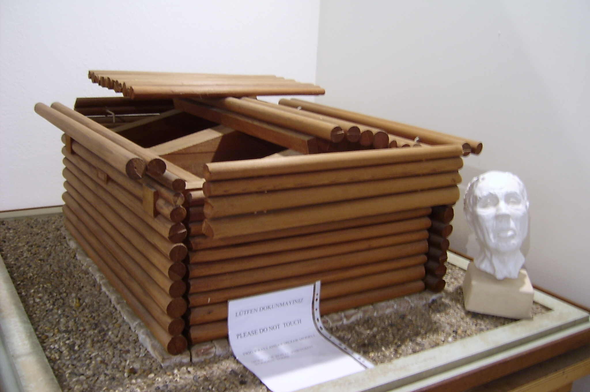 Model of the inside wooden construction of the tumulus of Midas in Fordion with the reconstructed head of the man buried here